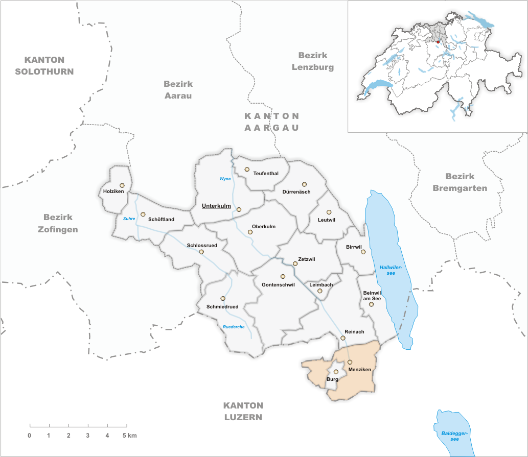 Municipality Menziken